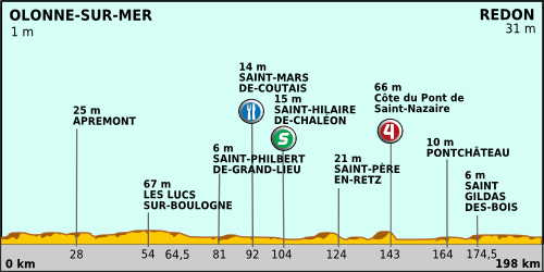 Profil of the 3rd stage of the Tour de France 2011